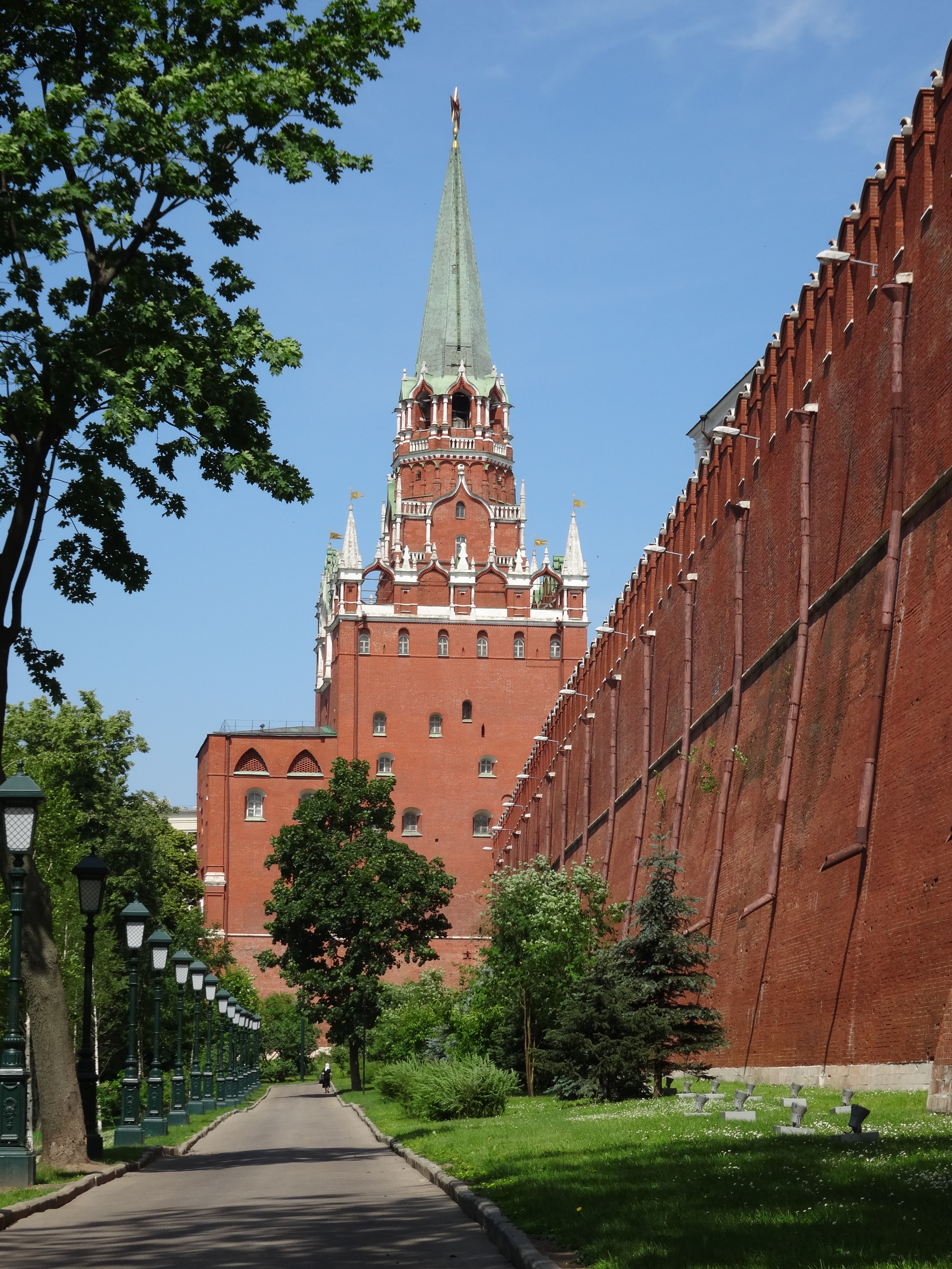 Kremlin Wall and Trinity Gate Moscow Russia